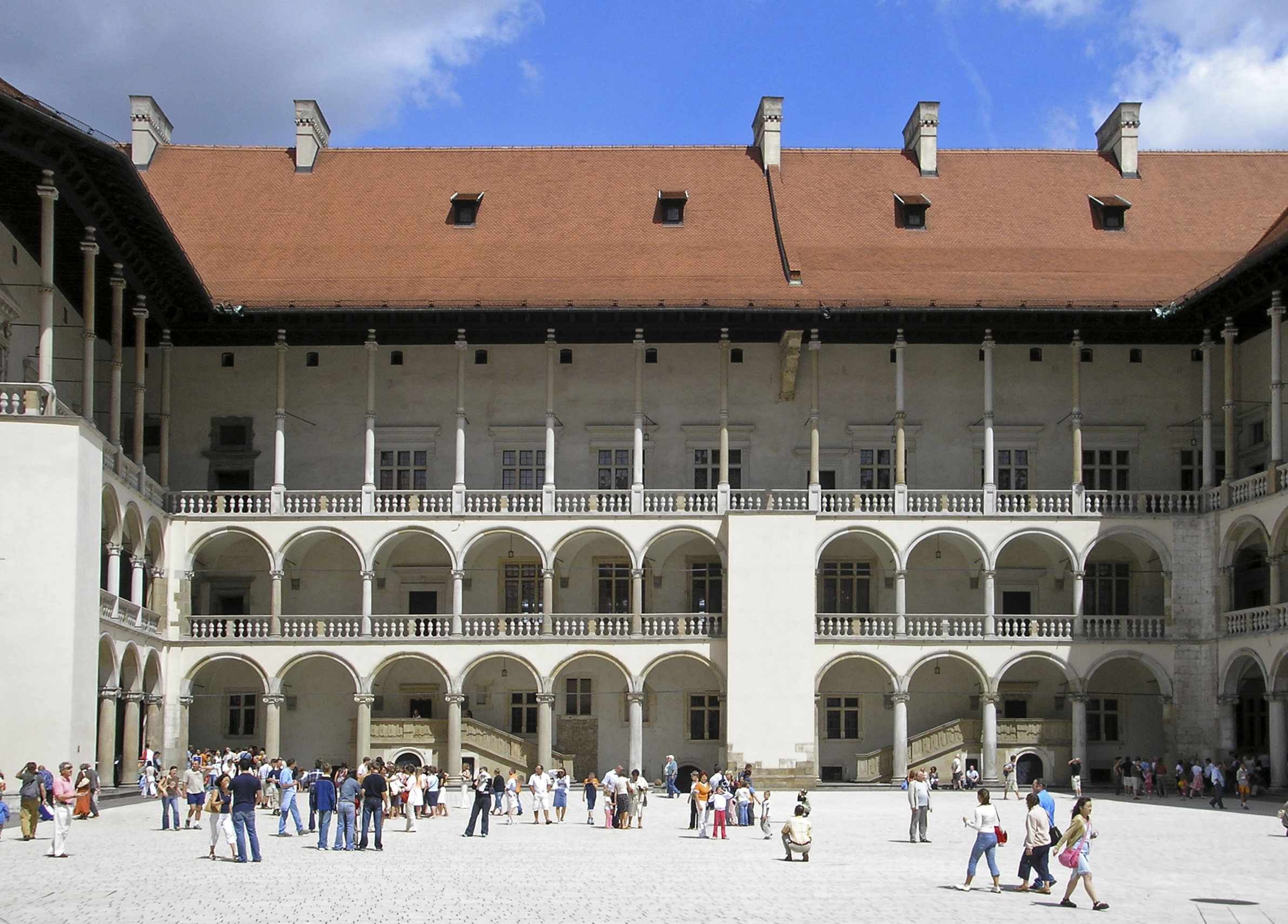 Courtyard of Wawel Royal Castle in Kraków.